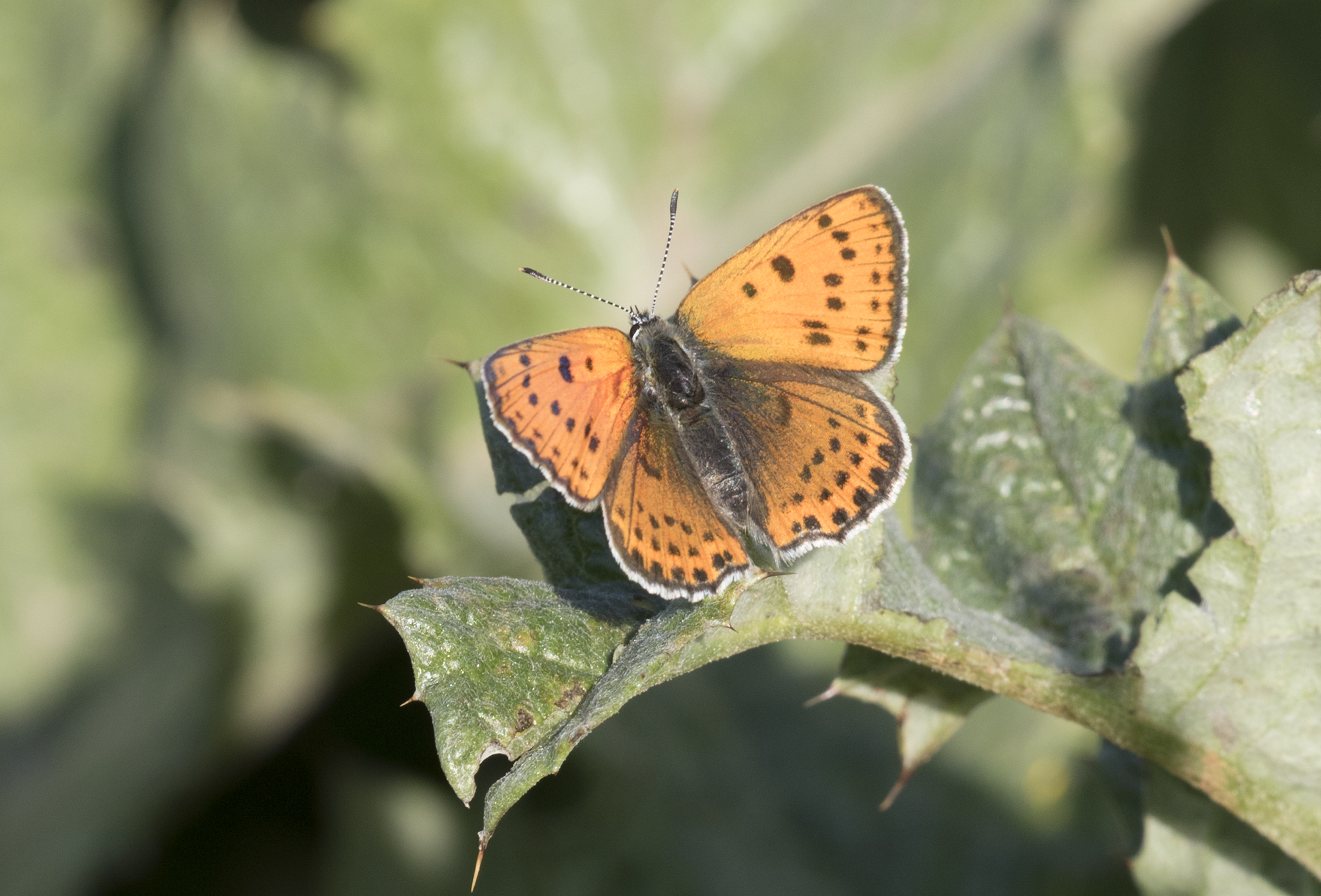 A female lesser fiery copper (Lycaena thersamon). Balcalı, Adana - Turkey.